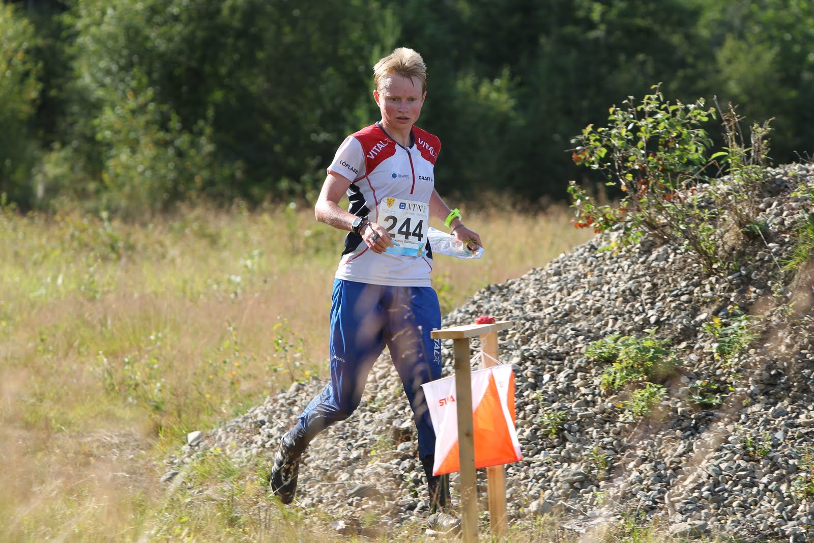 Marianne Andersen at World Orienteering Championships 2010 in Trondheim, Norway - Long Distance Qualification